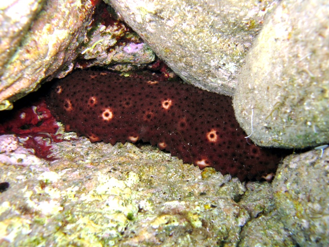 Holothuria sanctori